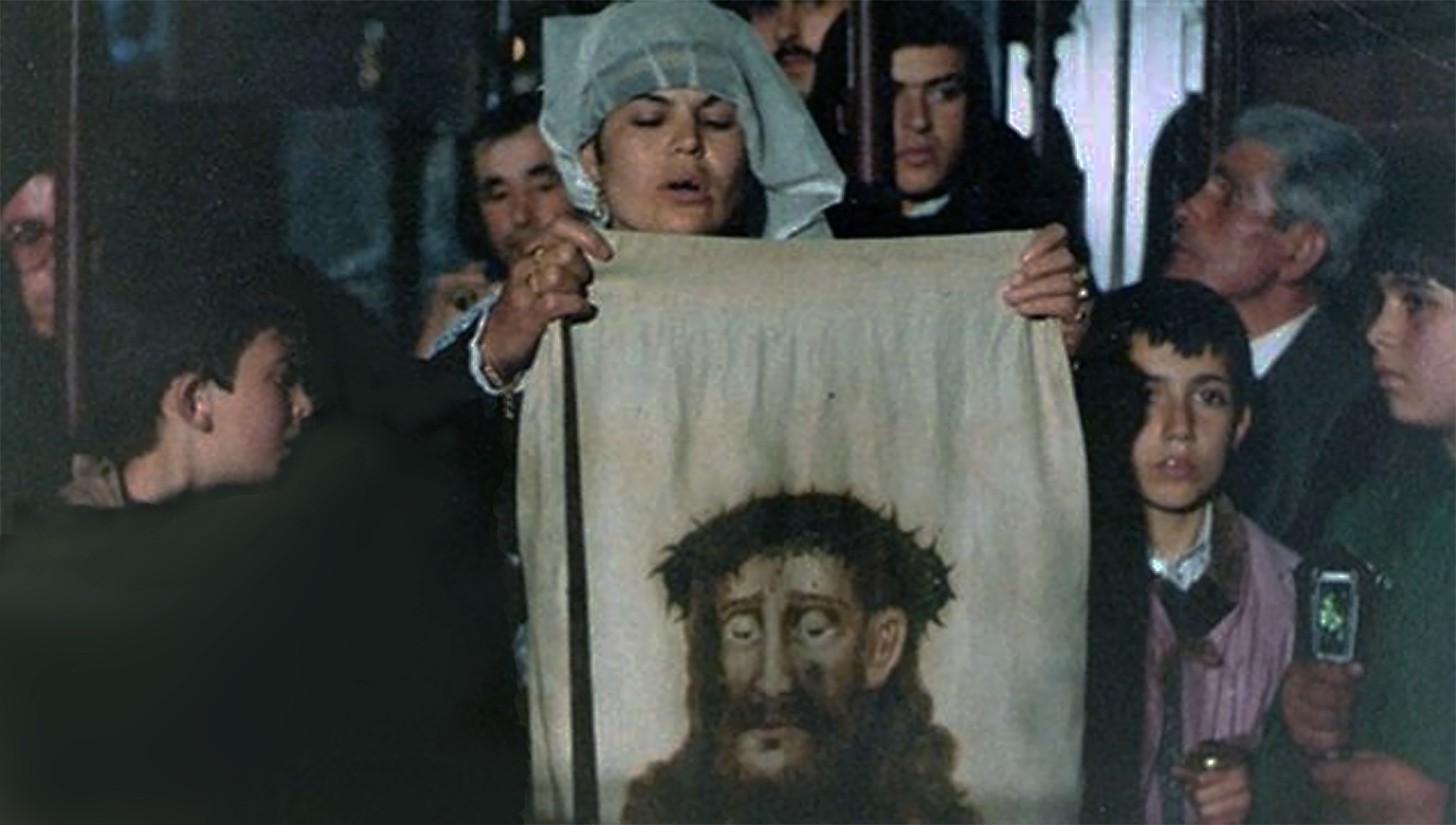 Veronica at the film Bread an Wine